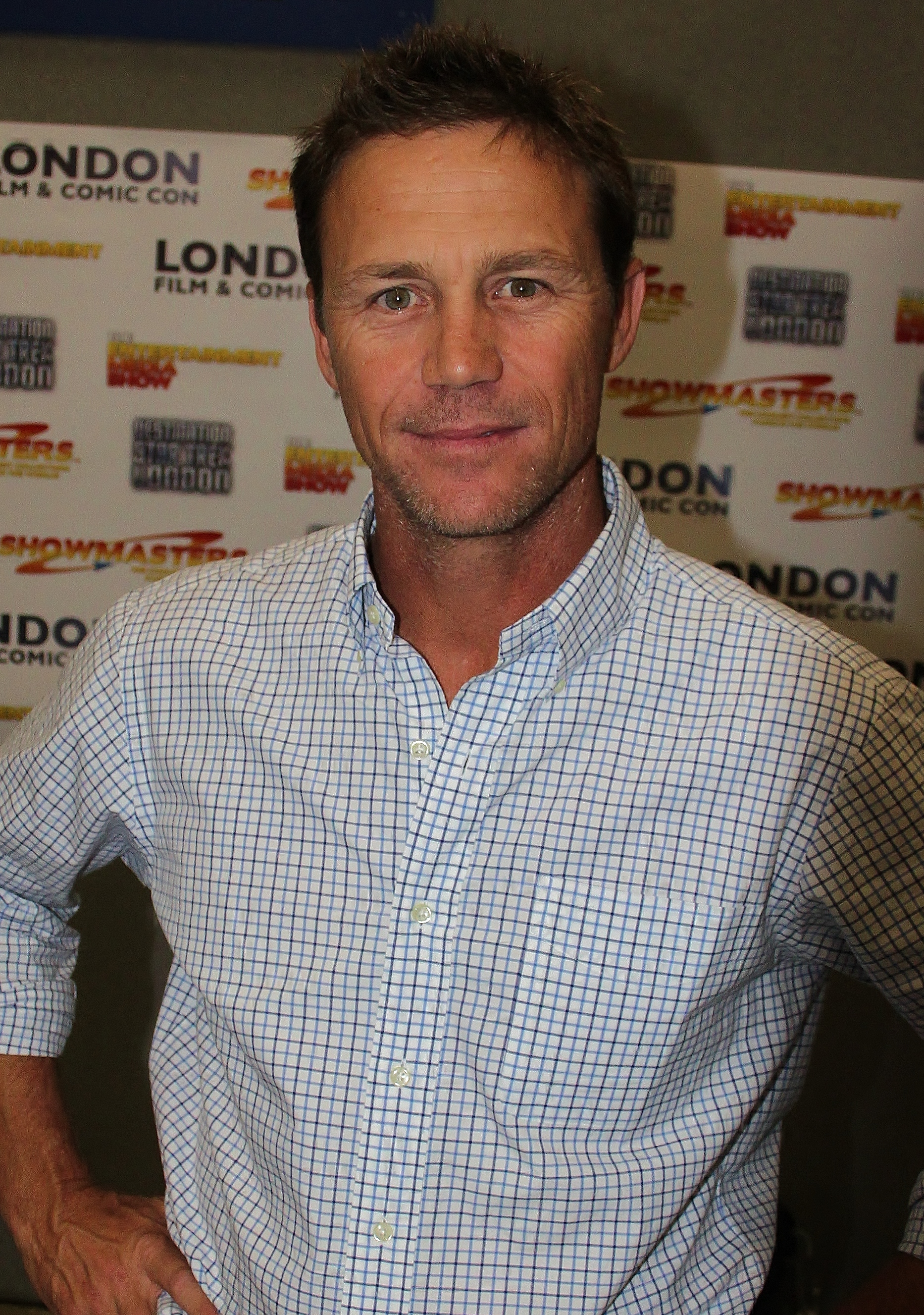 Brian Krause at the London Film and Comic Convention in July 2012.